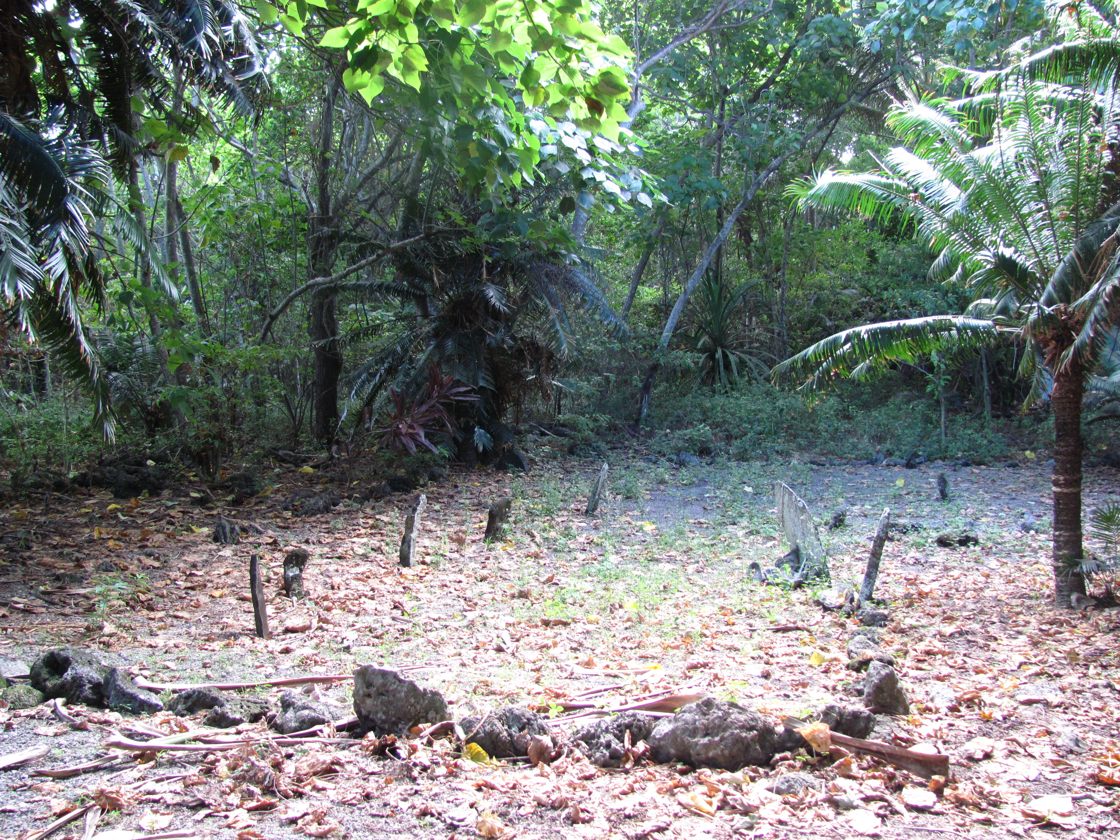 Cemetery with Chief Roimata's grave on Eretoka Island, Vanuatu